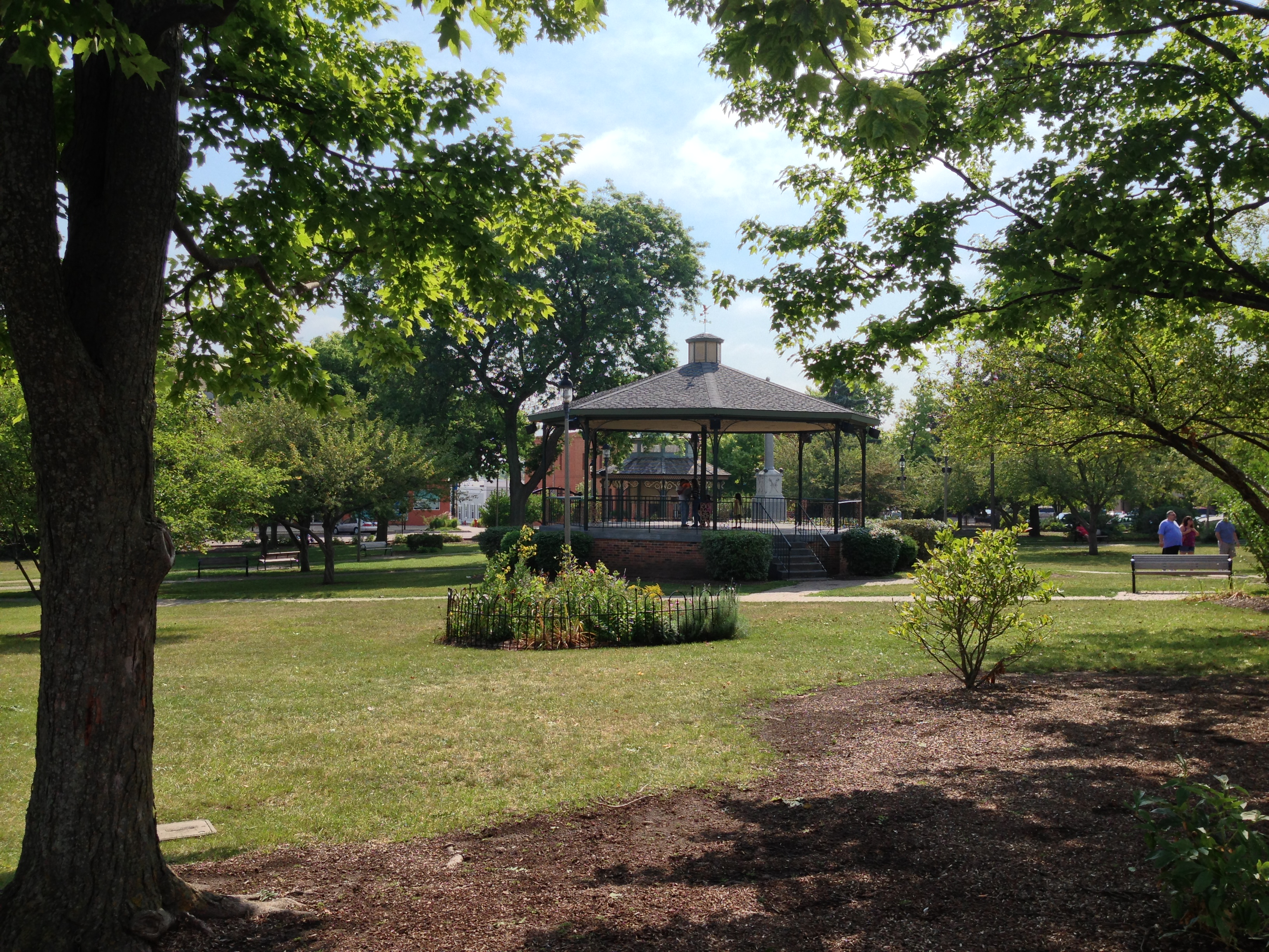 Woodstock Illinois square gazebo